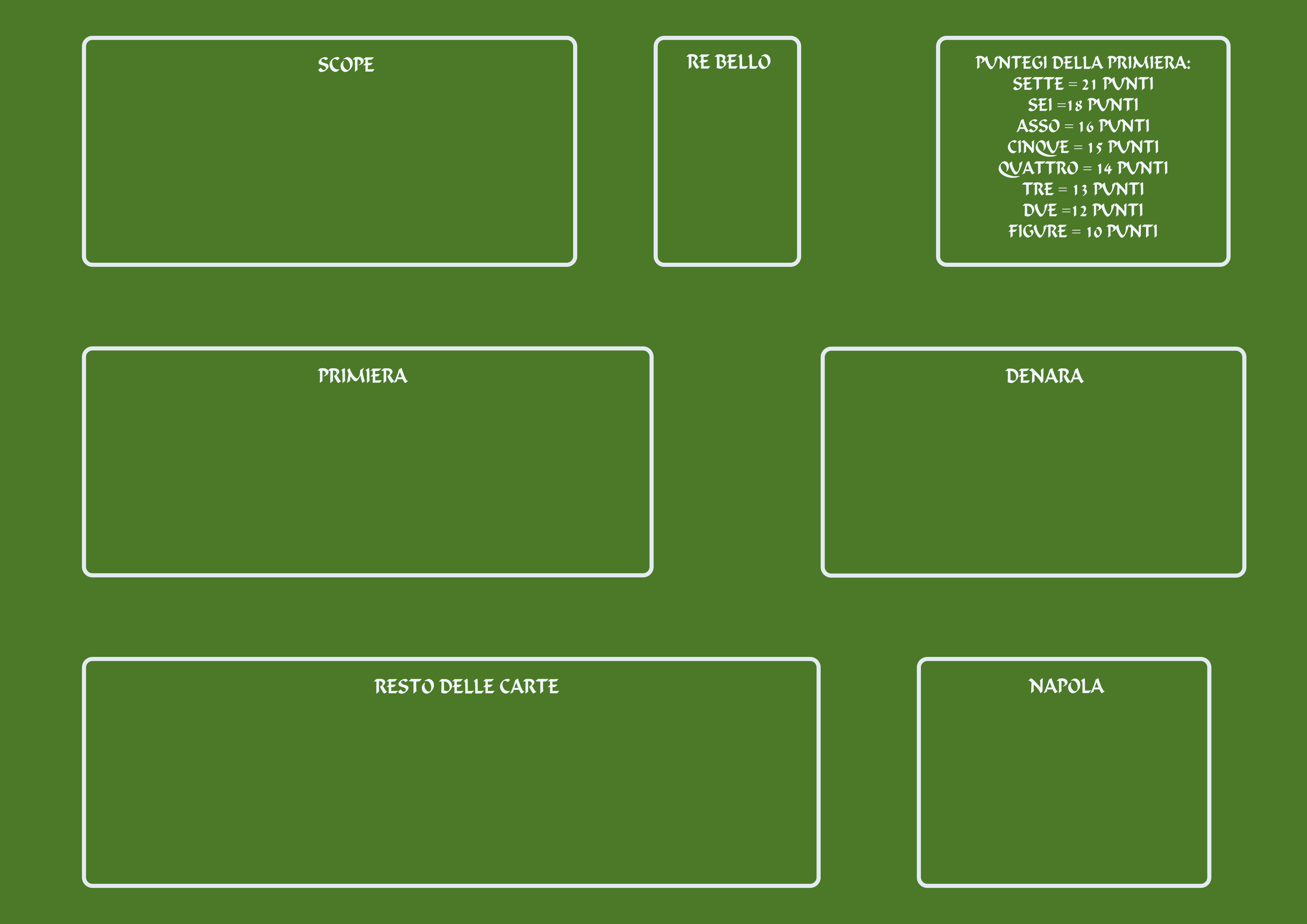 scoreboard for calculating the Scopa game score